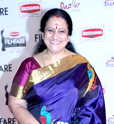 Actress Seema at the 62nd Filmfare Awards South, 2015